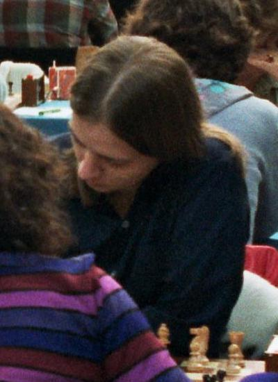 Chess Olympiad 1982 in Lucerne, Diane Savereide, Photographer Gerhard Hund.